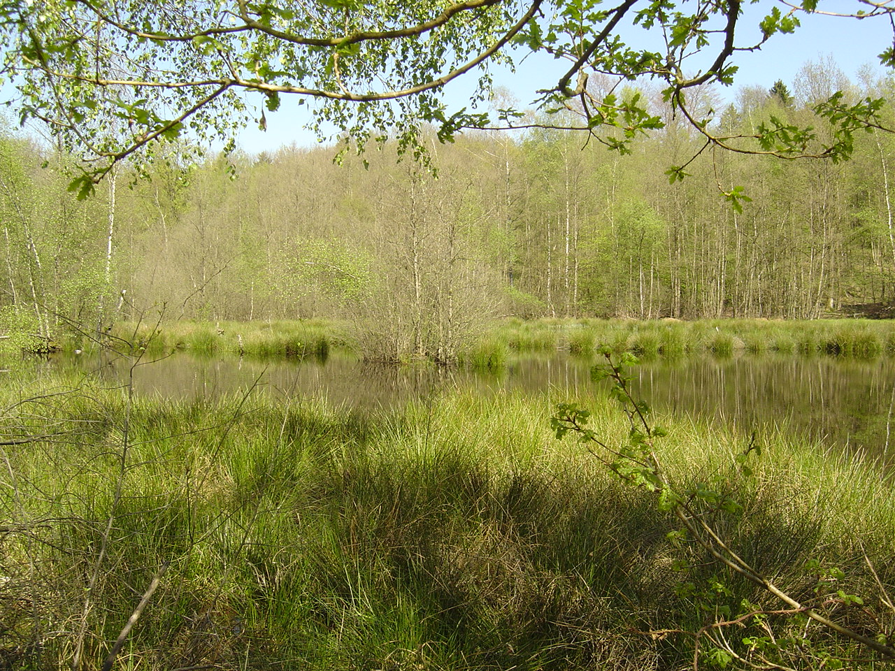 The "Breitsee", a turf moor amidst the forest of Möhlin